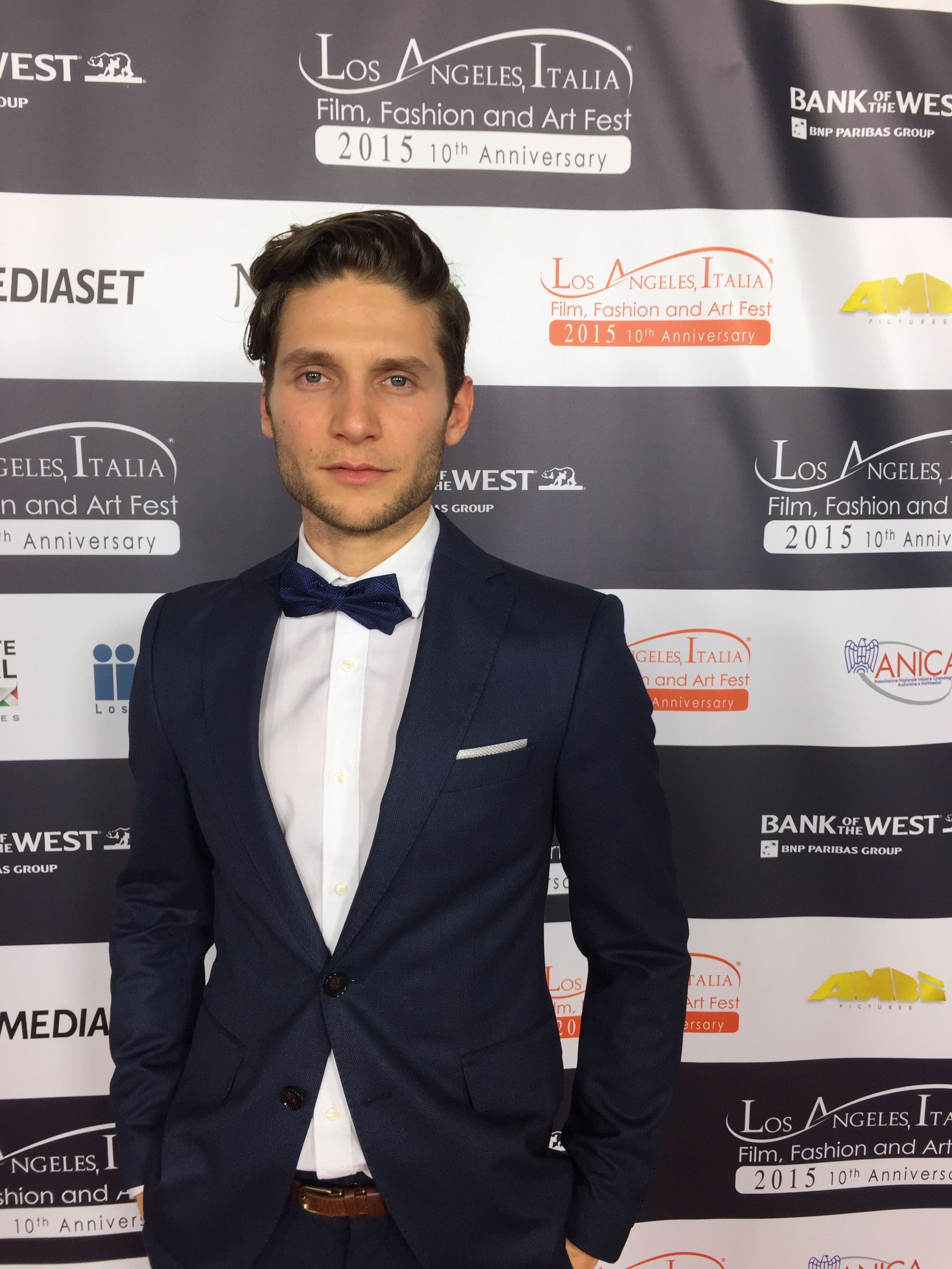 Alessandro Nori at the 2015 Los Angeles Italia Film Festival